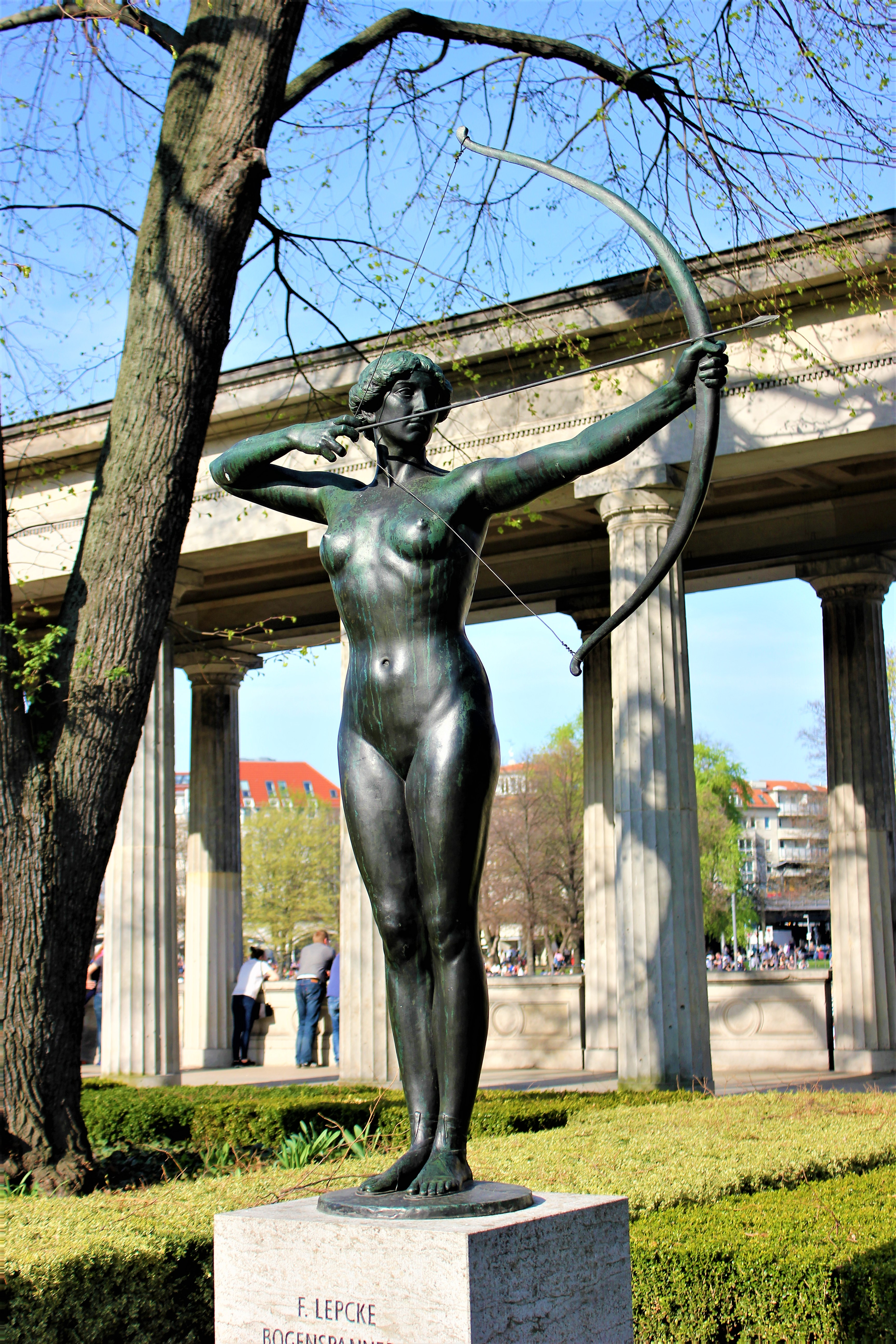 The Archer statue by Ferdinand Lepcke in Berlin